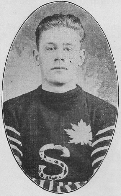 Canadian ice hockey player Fred "Bun" Cook with the 1922 Sault Ste. Marie Greyhounds.